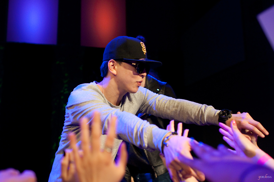 _DSC0613 Aziatix performing at The Irenic, San Diego, April 4, 2012.